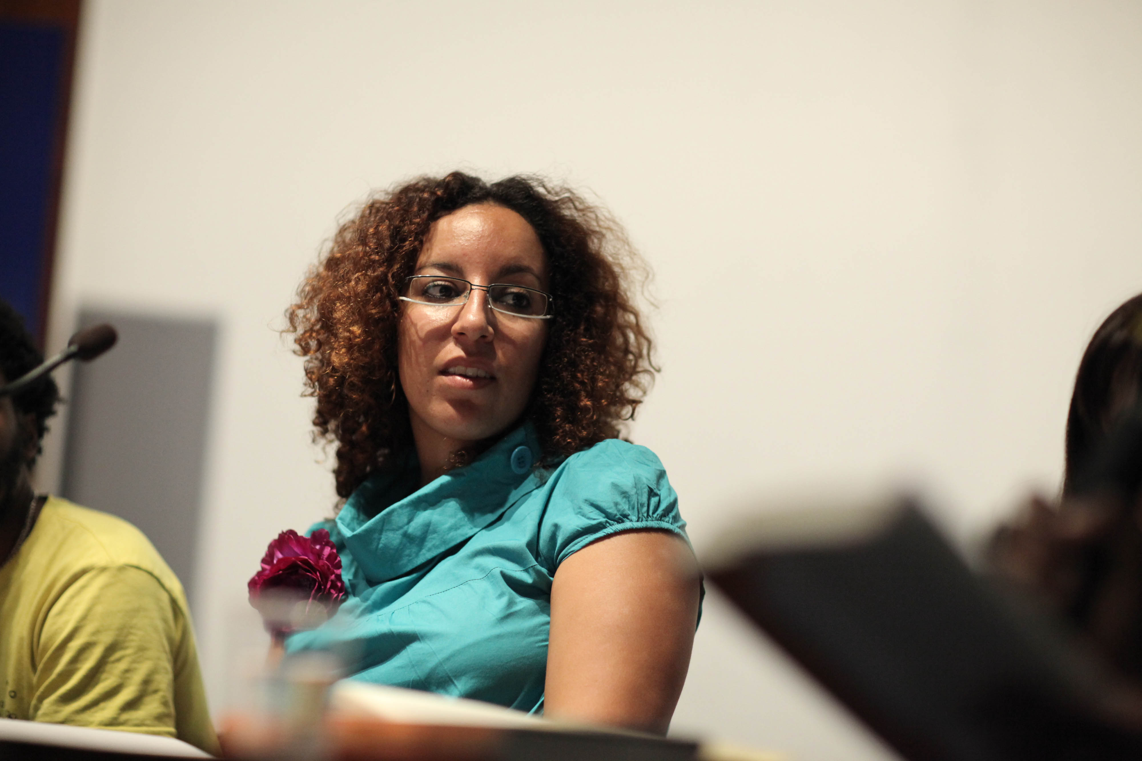 Najat El Hachmi. Biography: "Africani d'Europa / africani in Europa", a round table organised by lettera27, curated by Paola Splendore and Sandro Triulzi , coordinated by Igiaba Scego with the authors Chika Unigwe, Jadelin Mabiala Gangbo and Najat El Hachmi. Mantova 09/12/09 Know more about lettera27 Foundation